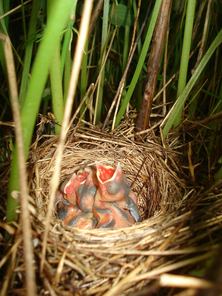 Marsh Warbler (Acrocephalus palustris)